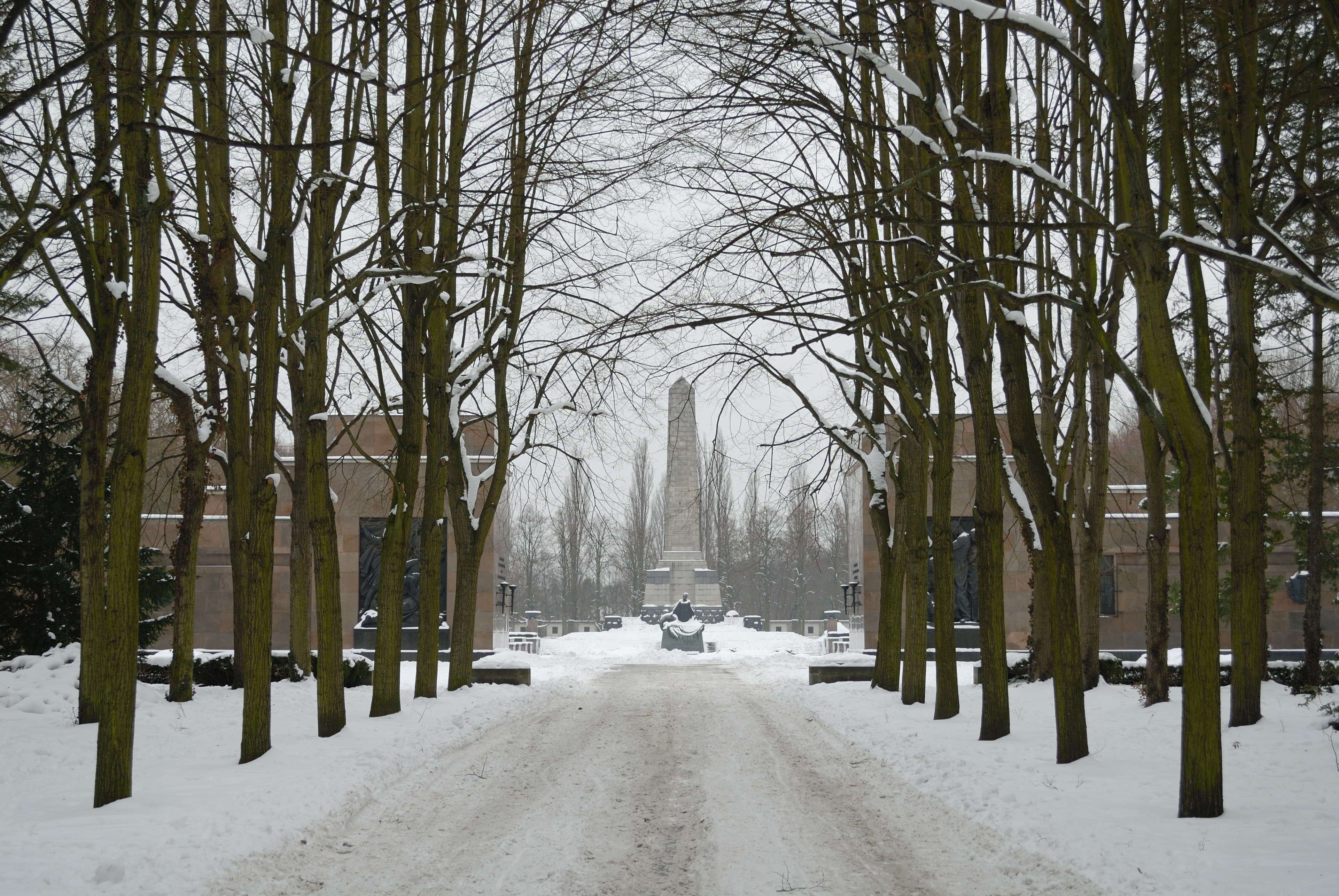 Soviet War Memorial (Schönholzer Heide) in winter.